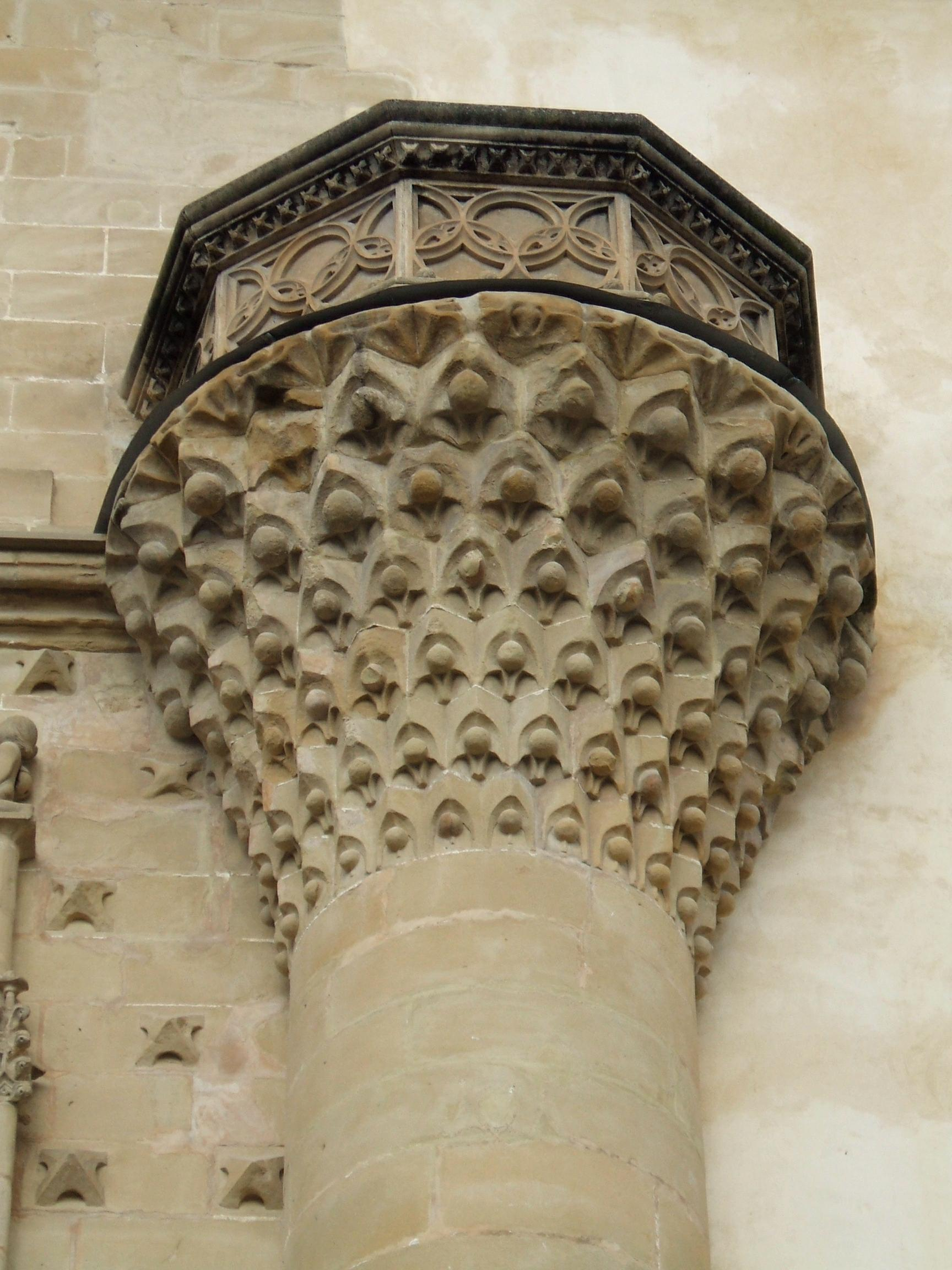 Detalle arquitectónico de la fachada del Palacio de Jabalquinto, en Baeza (Jaén, Andalucía, España)